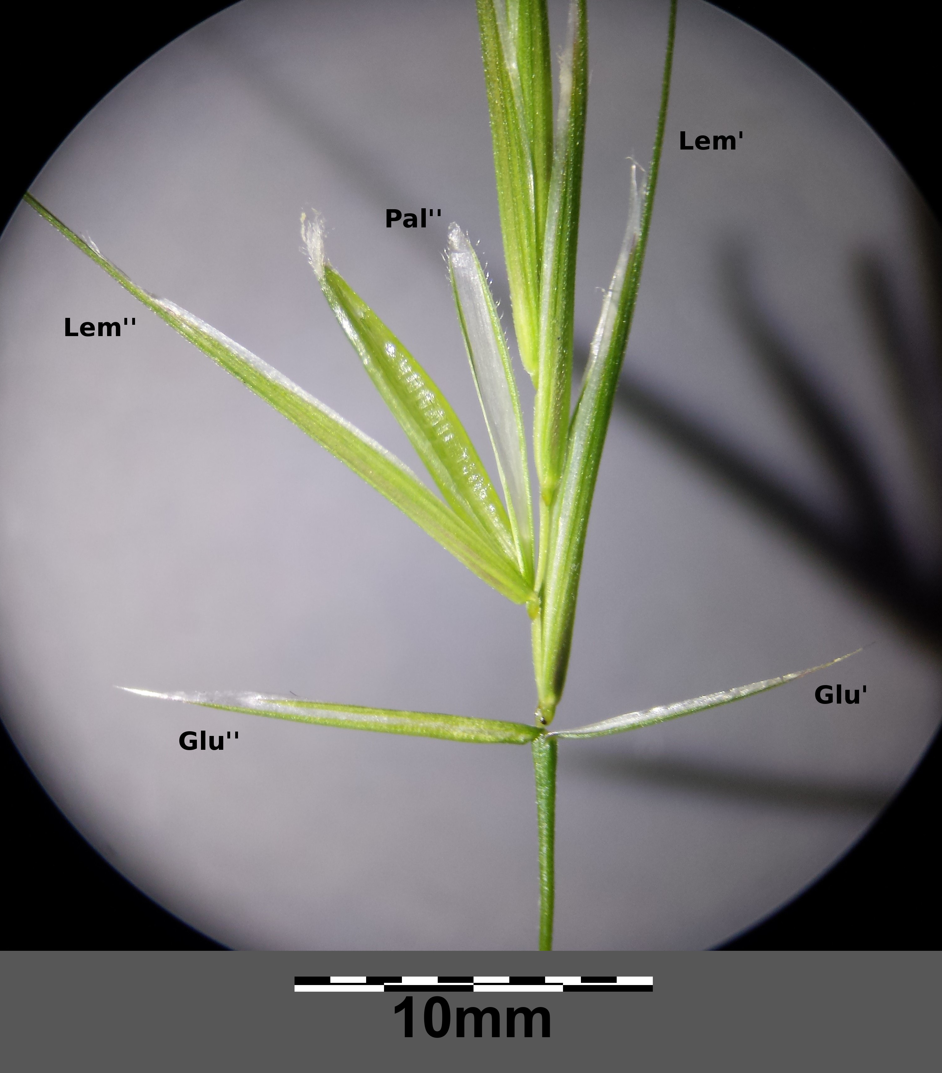 Spikelet Glu = Gluma Lem = Lemma Pal = Palea Taxonym: Bromus sterilis ss Fischer et al. EfÖLS 2008 ISBN 978-3-85474-187-9 Location: Donaupark, Vienna-Donaustadt - ca. 160 m a.s.l. Habitat: ruderal, dry meadows